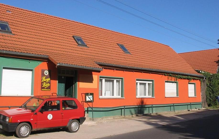 Building Dorfstraße (german for villagestreet ) No. 3 in Gömnigk. The village Gömnigk is a part of the town Brück in the district Potsdam Mittelmark, state Brandenburg, Germany, at the border to the natural preserve Naturpark Hoher Fläming.